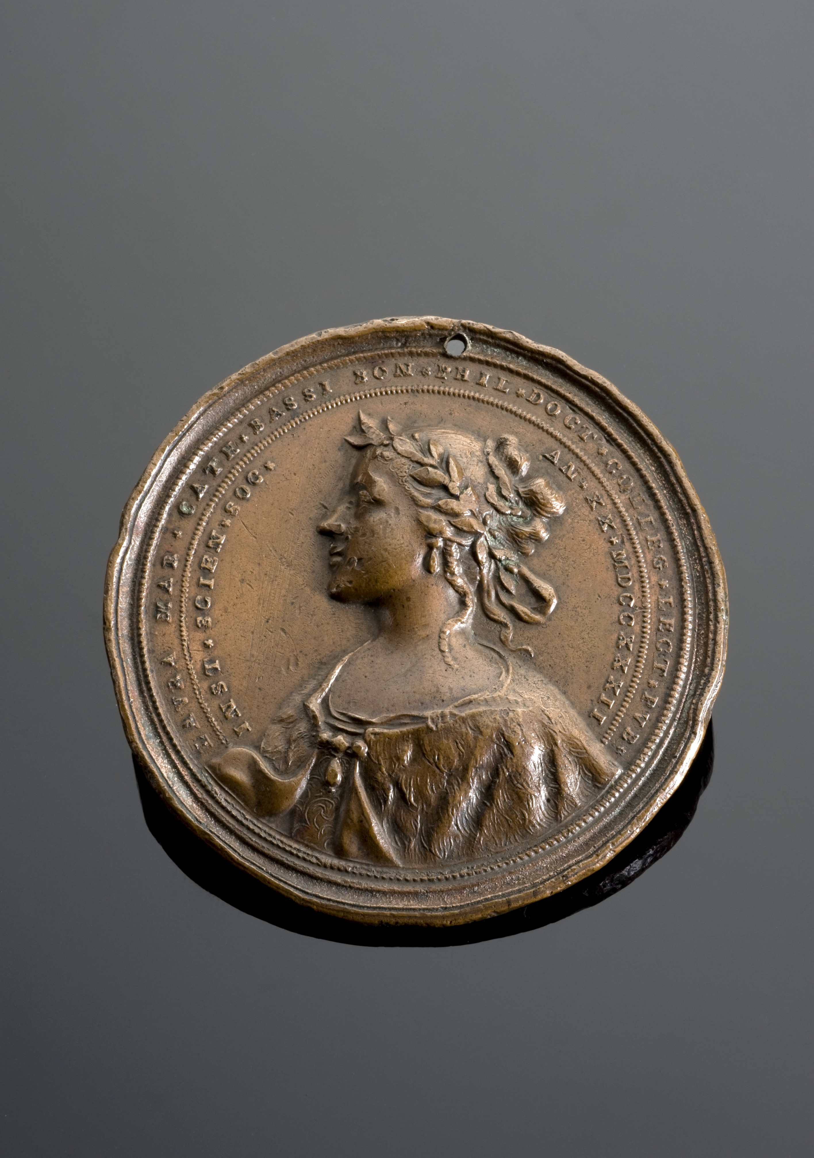 Laura Bassi (1711-88) was the first woman to be offered an official teaching position at any university in Europe. She held the chair in experimental physics from 1776 to 1778. She was also the second woman ever to receive a university degree, in 1732. The other side of the medal shows Bassi as the Roman goddess Minerva, who was the goddess of wisdom, the arts and professionals. artist: Lazari, Antony Place made: Italy Wellcome Images Keywords: commemorative; medal